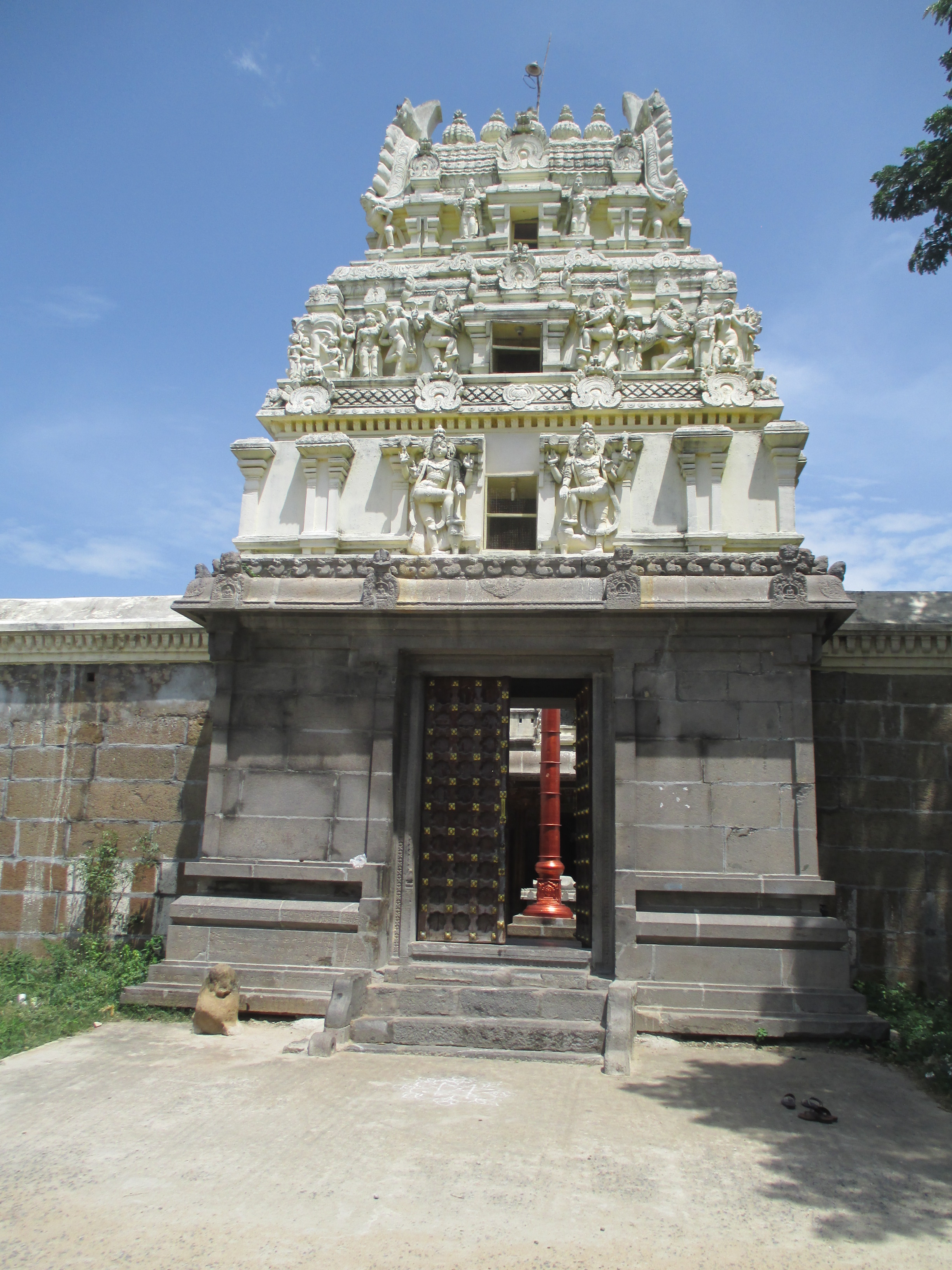 Tiruparuthikundram